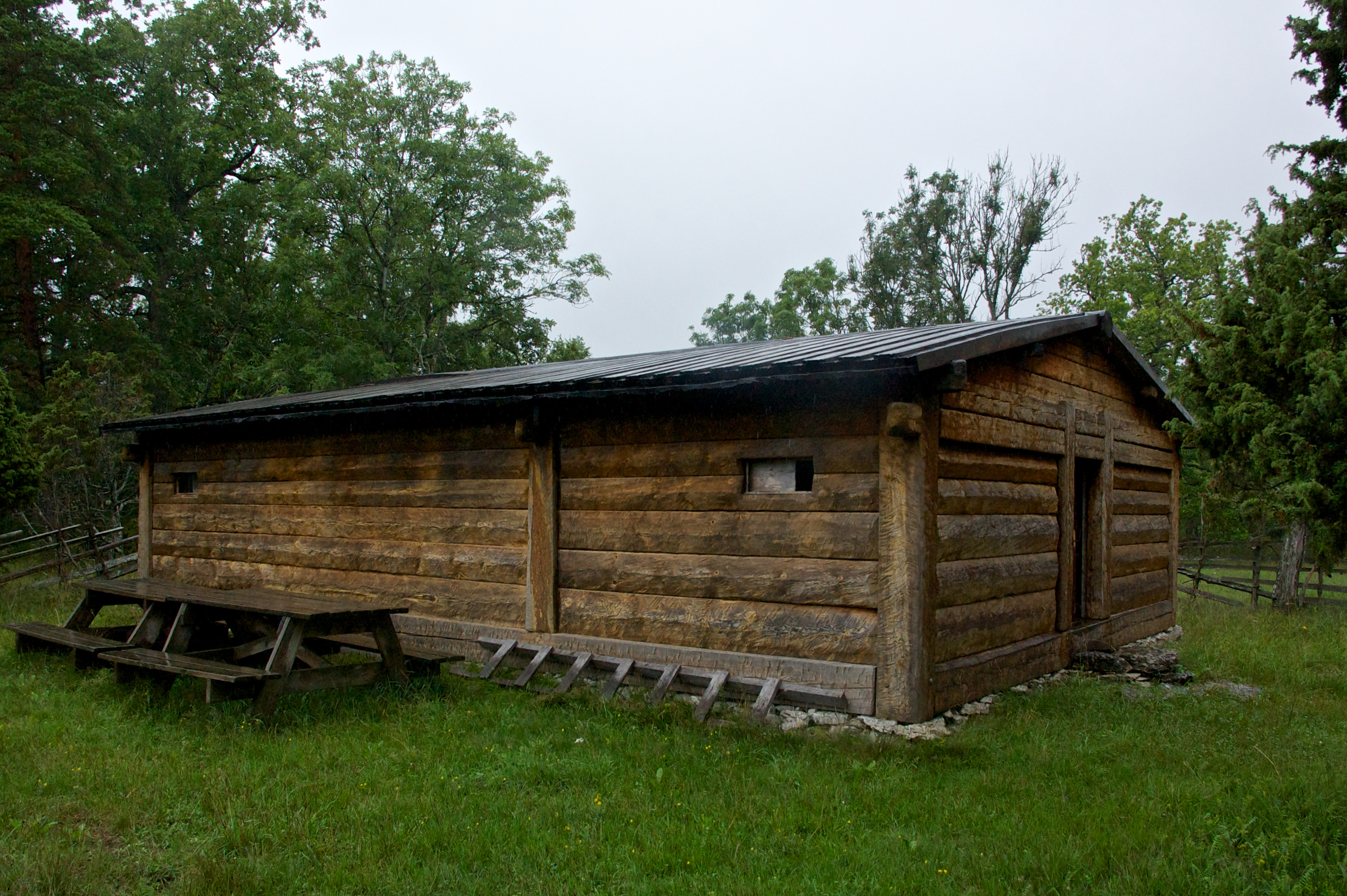 Reconstructed buildings at the former farm Fjäle nearby Ala, Gotland.